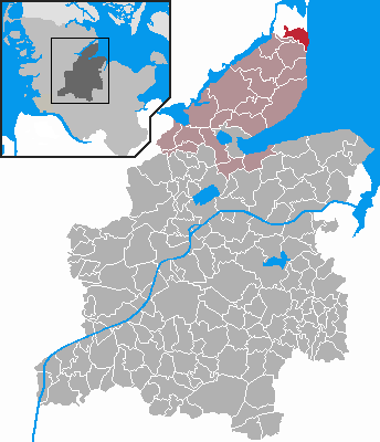 Locator maps of municipalities in Schleswig-Holstein - District Rendsburg-Eckernförde